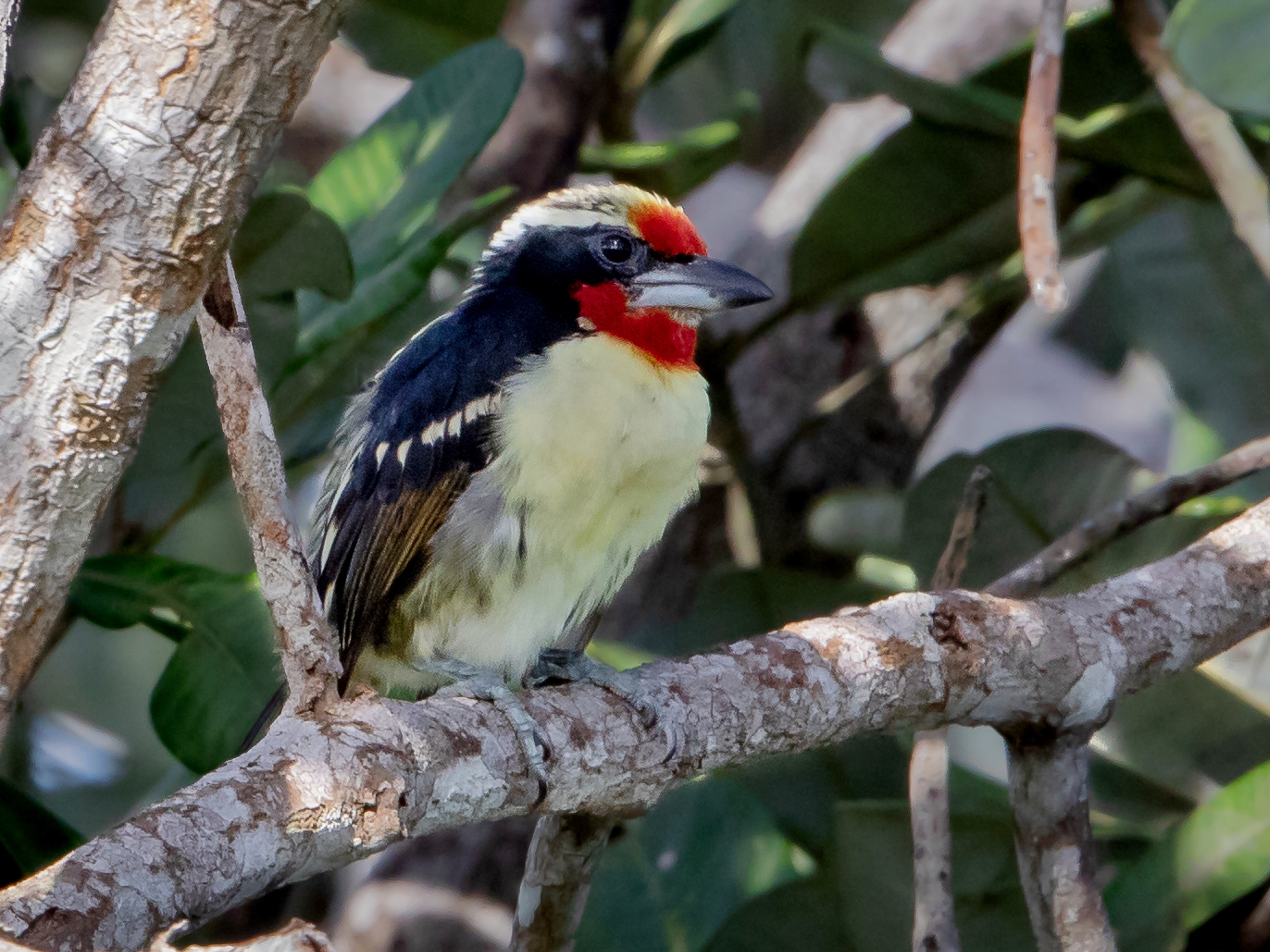 Black-spotted barbet (male); Manaus, Amazonas, Brazil